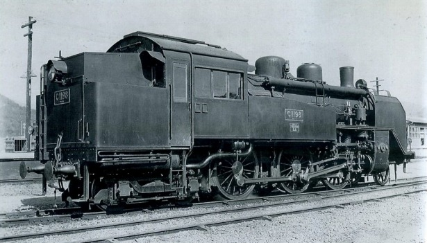 JNR Class C11 steam locomotive C11 98